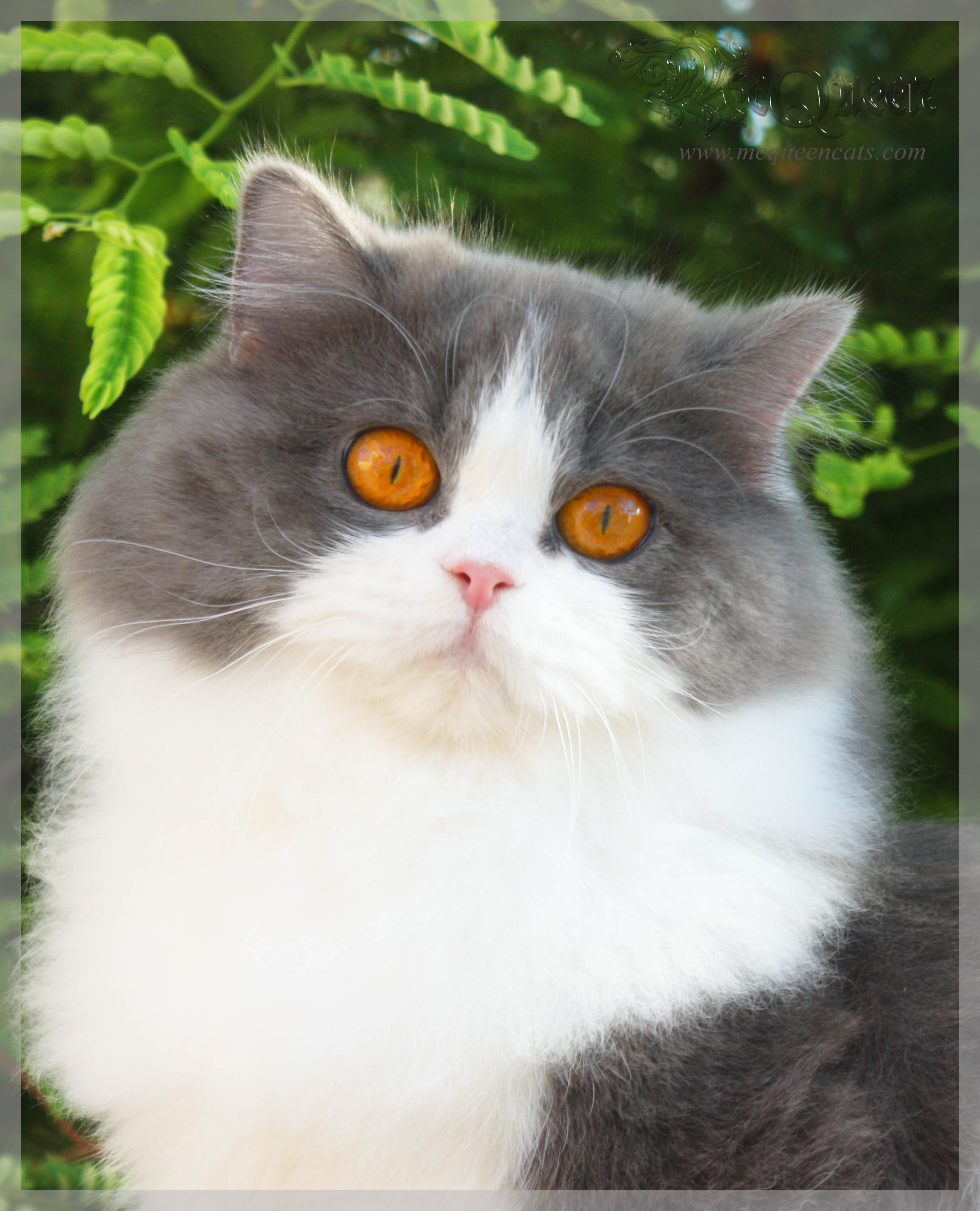 A British Longhair cat of blue - white color from McQueen cattery.